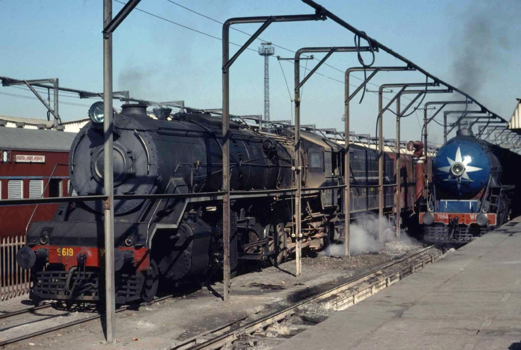 Two Steam engines at water refilling station at Agra station. On the left WG class 2-8-2 Nº 9619 (Chittaranjan Locomotive Works, 7th order, 1958/59), on the right WP class 4-6-2 Nº 7066 (Chittaranjan Locomotive Works, 13th order, 1963)